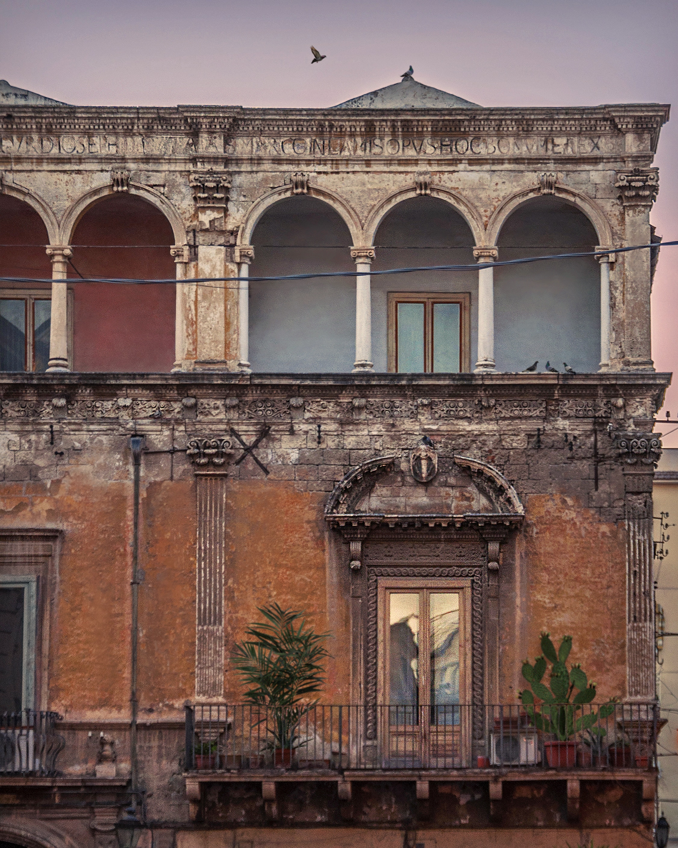 Foggia, Palazzo storico via Arpi